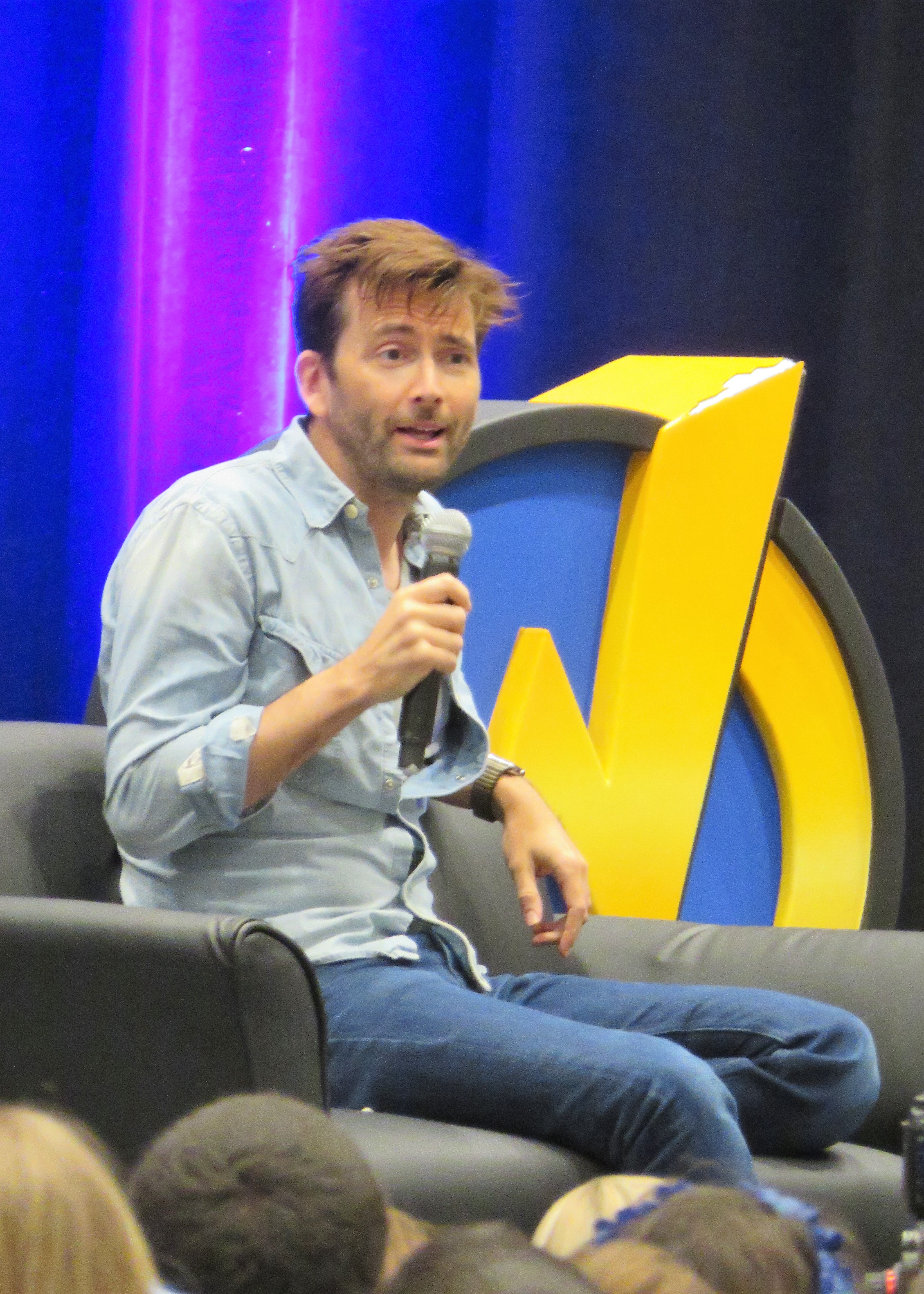 The many expressions of David Tennant